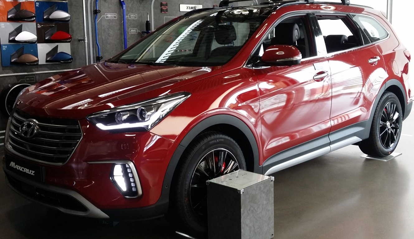 Hyundai The New Maxcruz